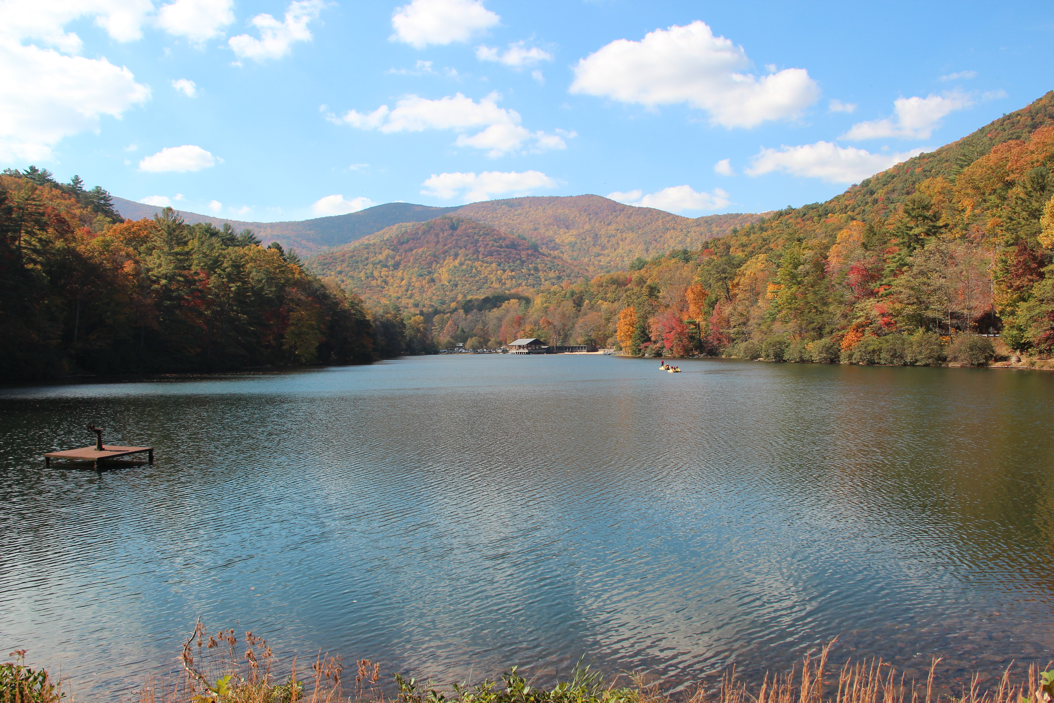 Lake Trahlyta, October 2016